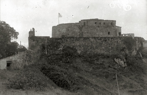 Urgull before construction of the religious monument.